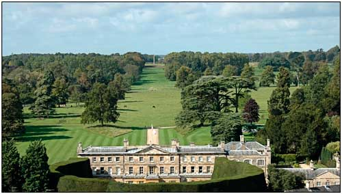 Cirencester Park and House A view of Cirencester Park and the house shot from the tower of the Parish Church